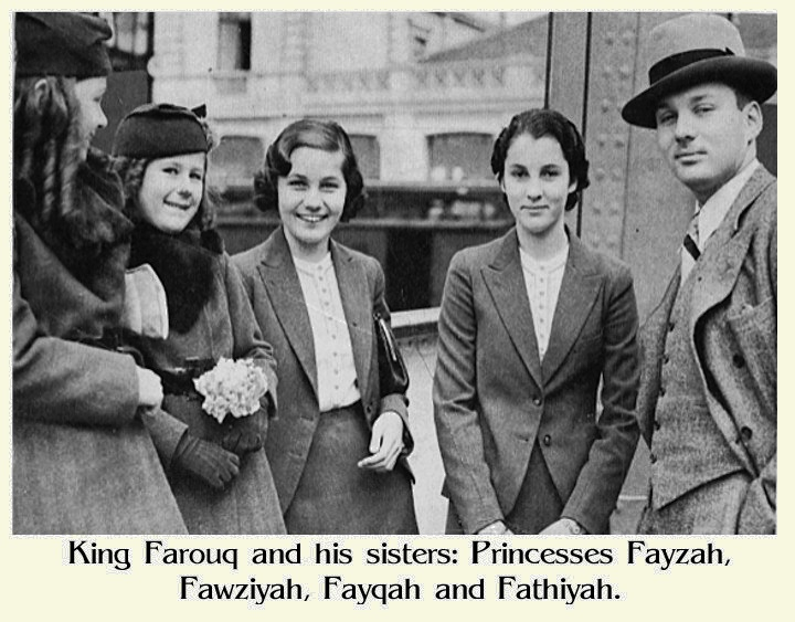 King Farouq and his sisters